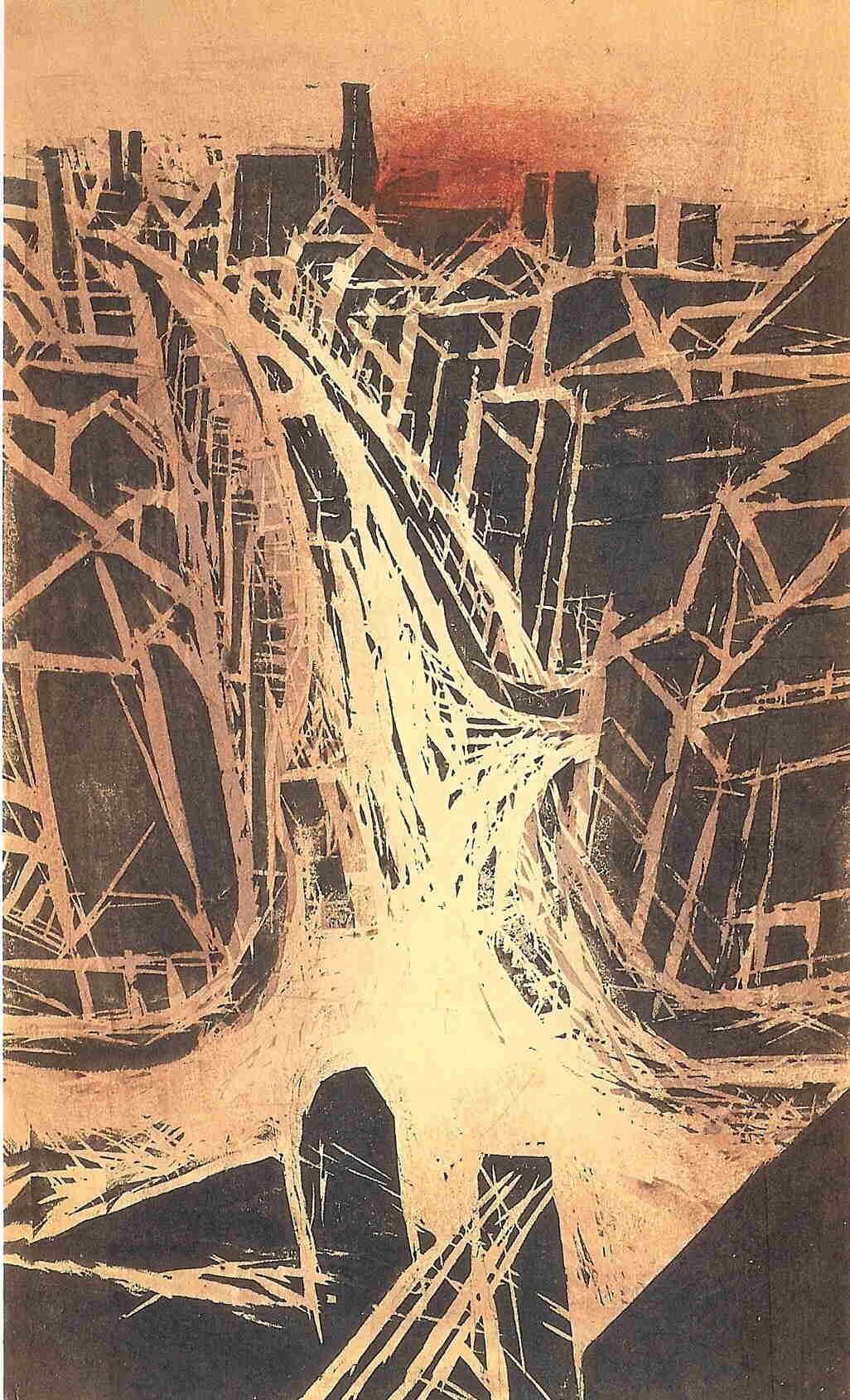 Fujimaki Yoshio: coloured woodcut "Red sun "